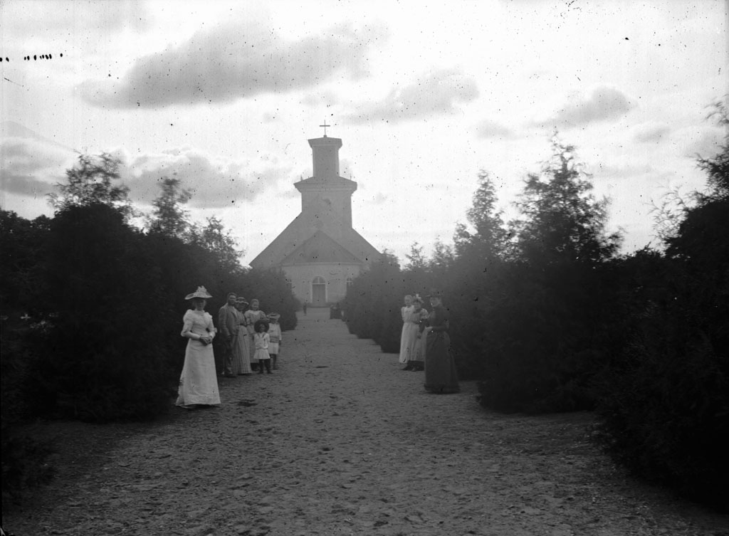 People outside Mörrum Church, inaugurated in 1847